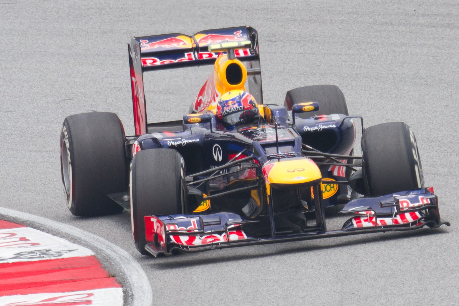 Formula One 2012 Rd.2 Malaysian GP: Mark Webber (Red Bull) during the third practice session on Saturday.